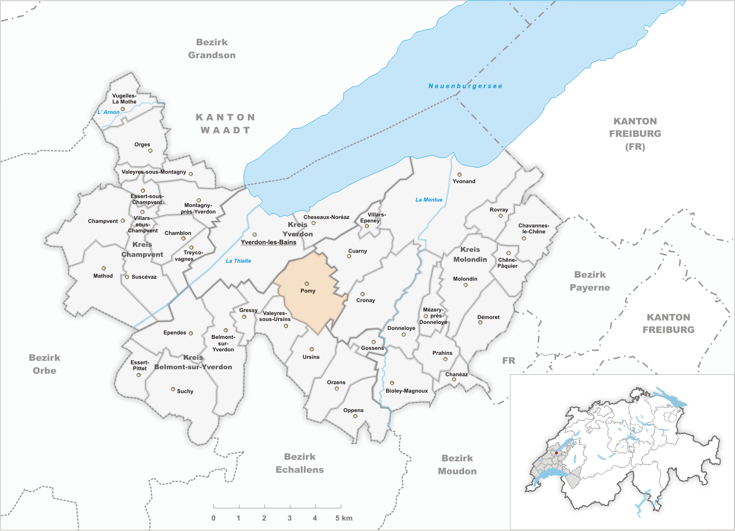 Municipality Pomy